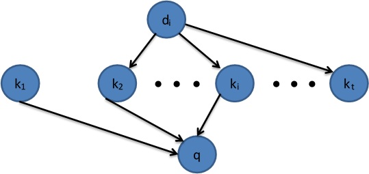 inference network